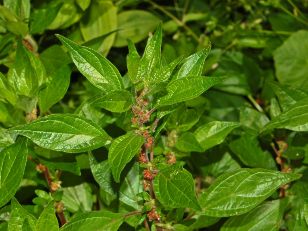 Parietaria judaica - Genova. Italy